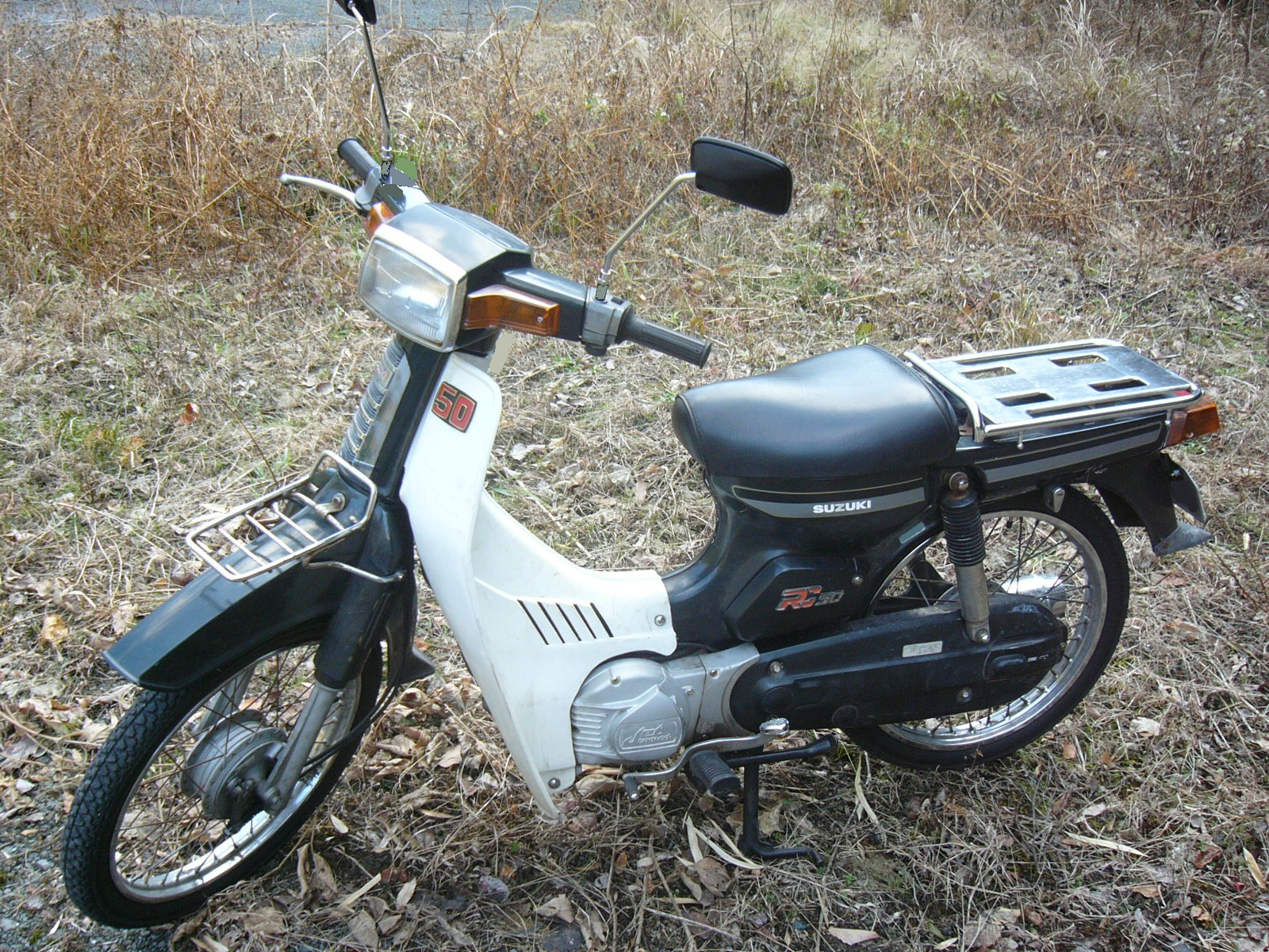 Suzuki RC50(BA13A). As compared with the next BA14A type birdie 50, the design of each part, such as front cowl and a rear career, is what gave priority to the style.